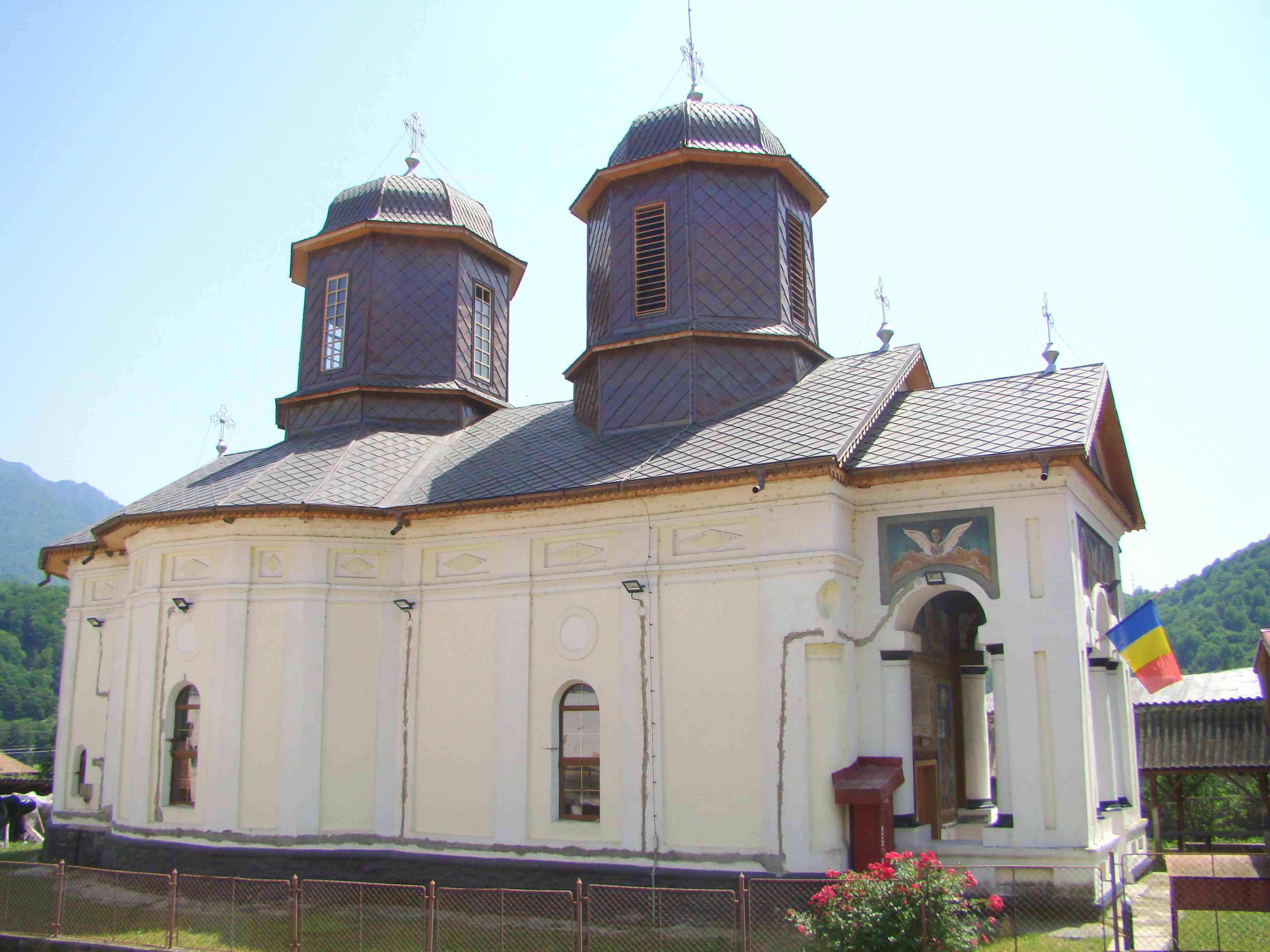 Orthodox church (1775) in Călineşti, Vâlcea county, Romania